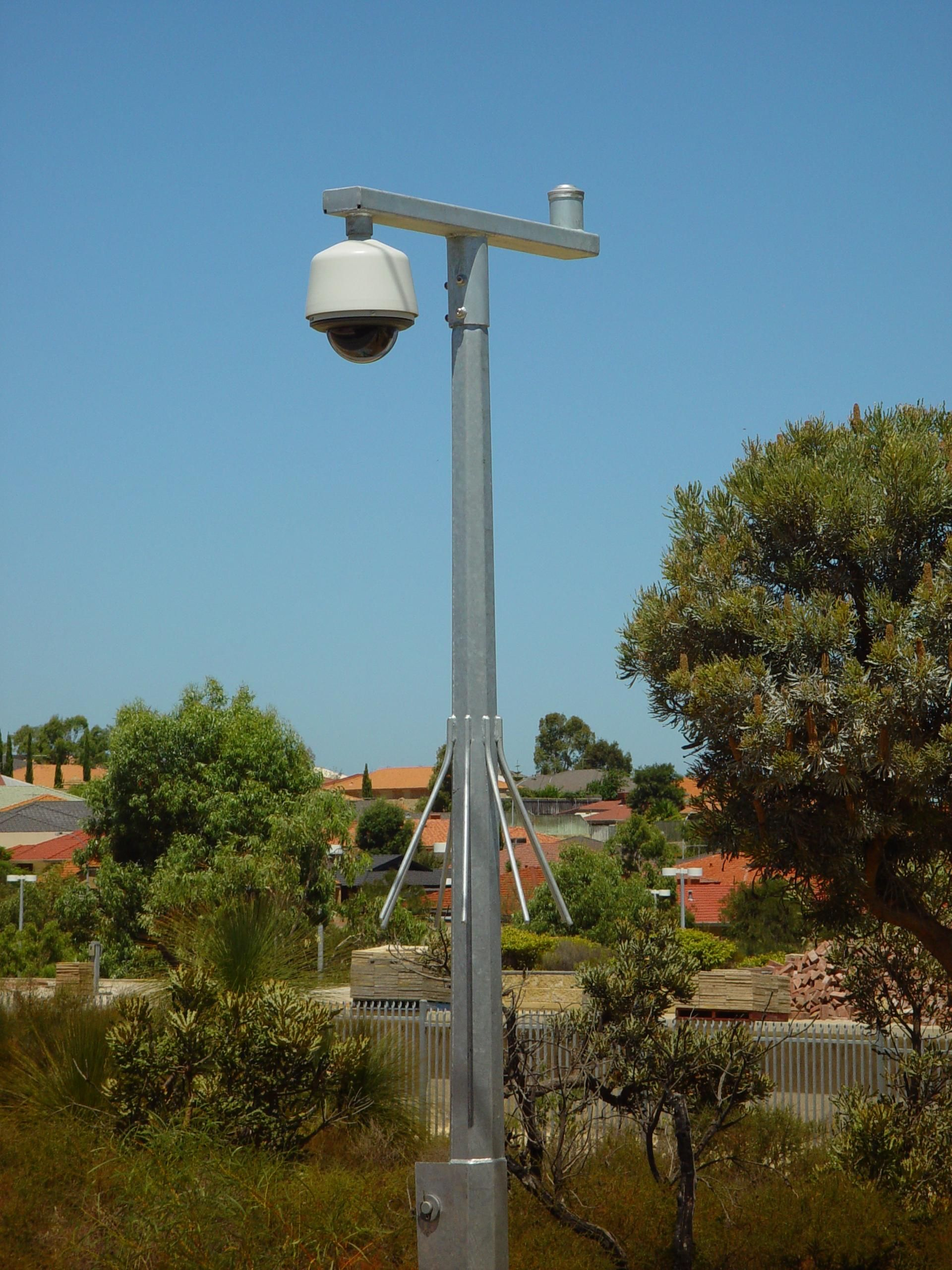 Image title: Security camera at Currambine railway station, Perth Image from Public domain images website